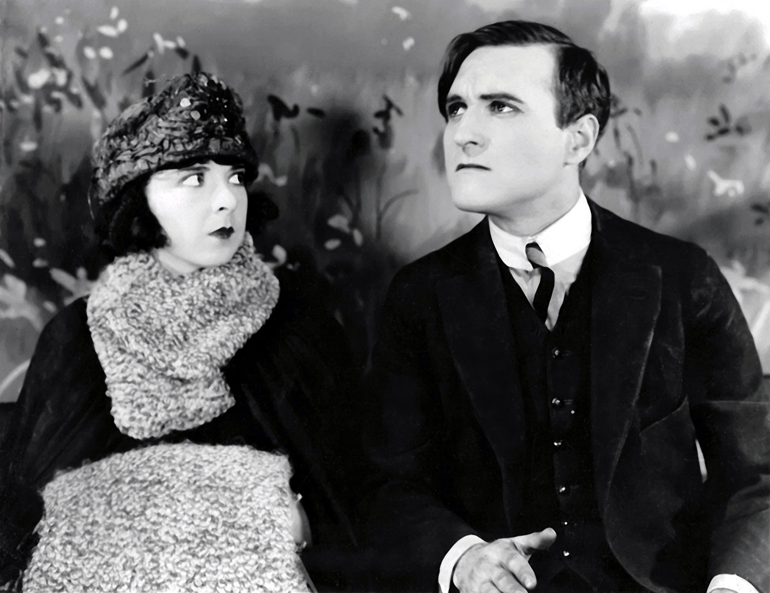 Still with Colleen Moore and James Morrison in the American drama film The Nth Commandment (1923).